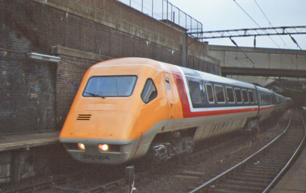 related image